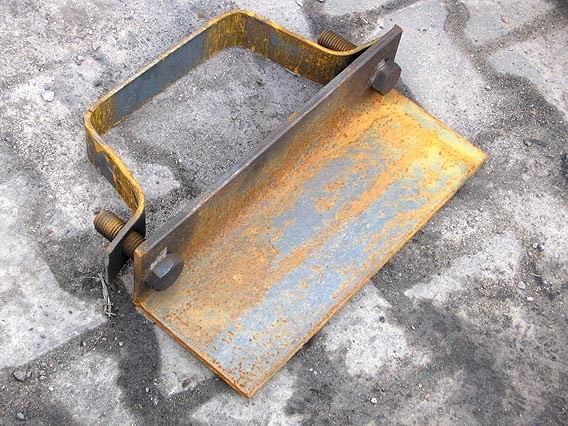 sleeper anchor is used to stabilize the position of the track in the curve